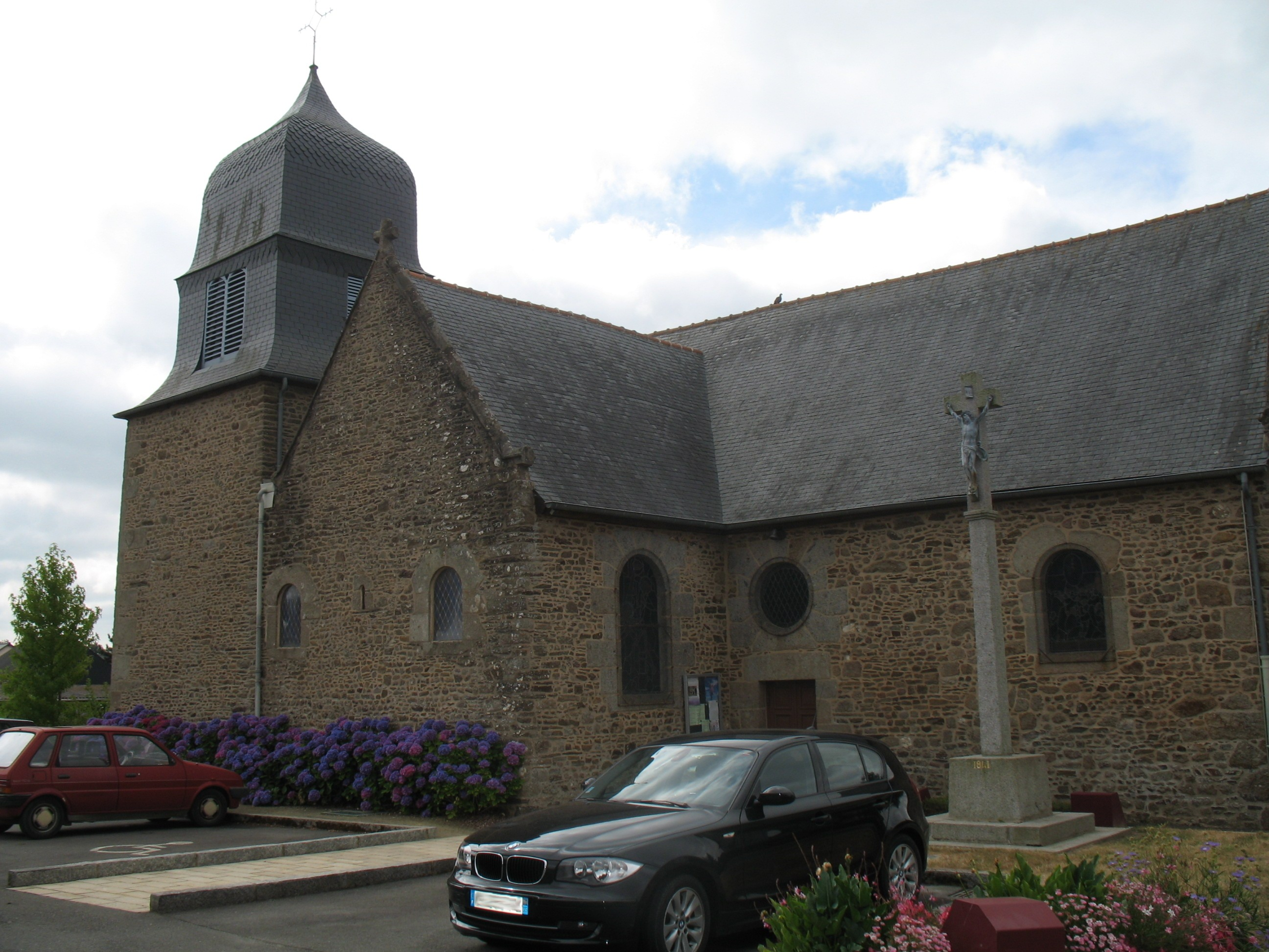 Church of Beaucé.